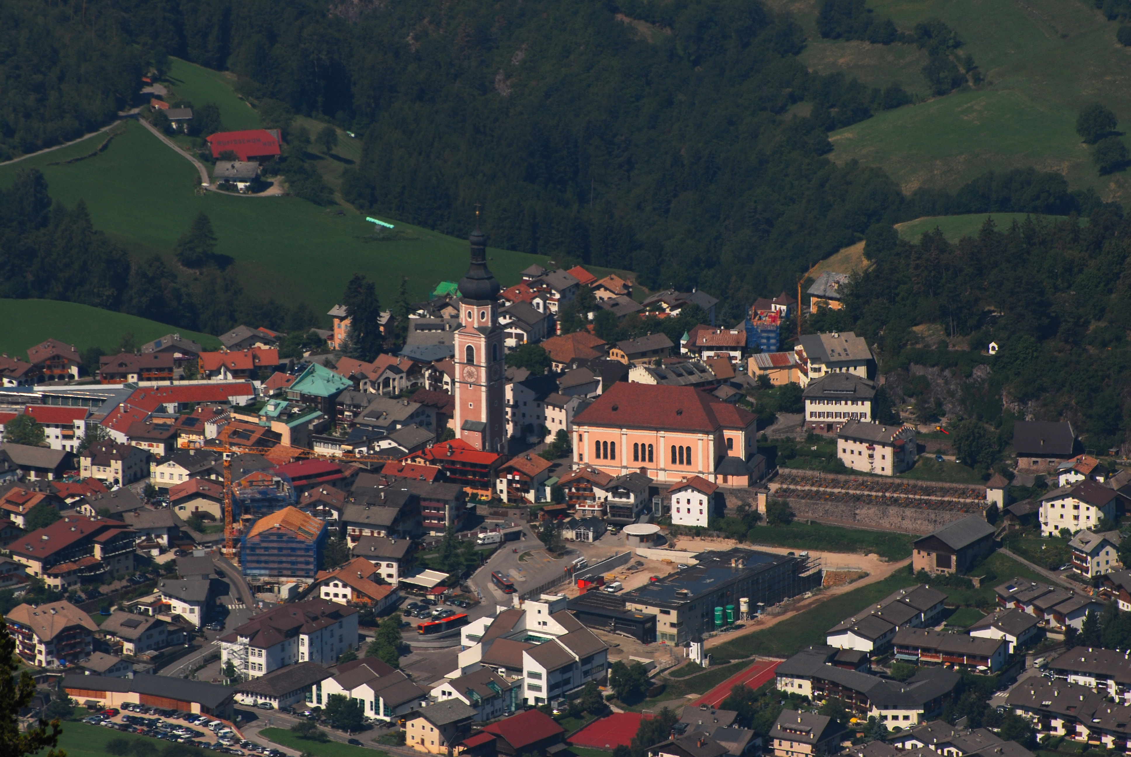 Castelrotto - Kastelruth